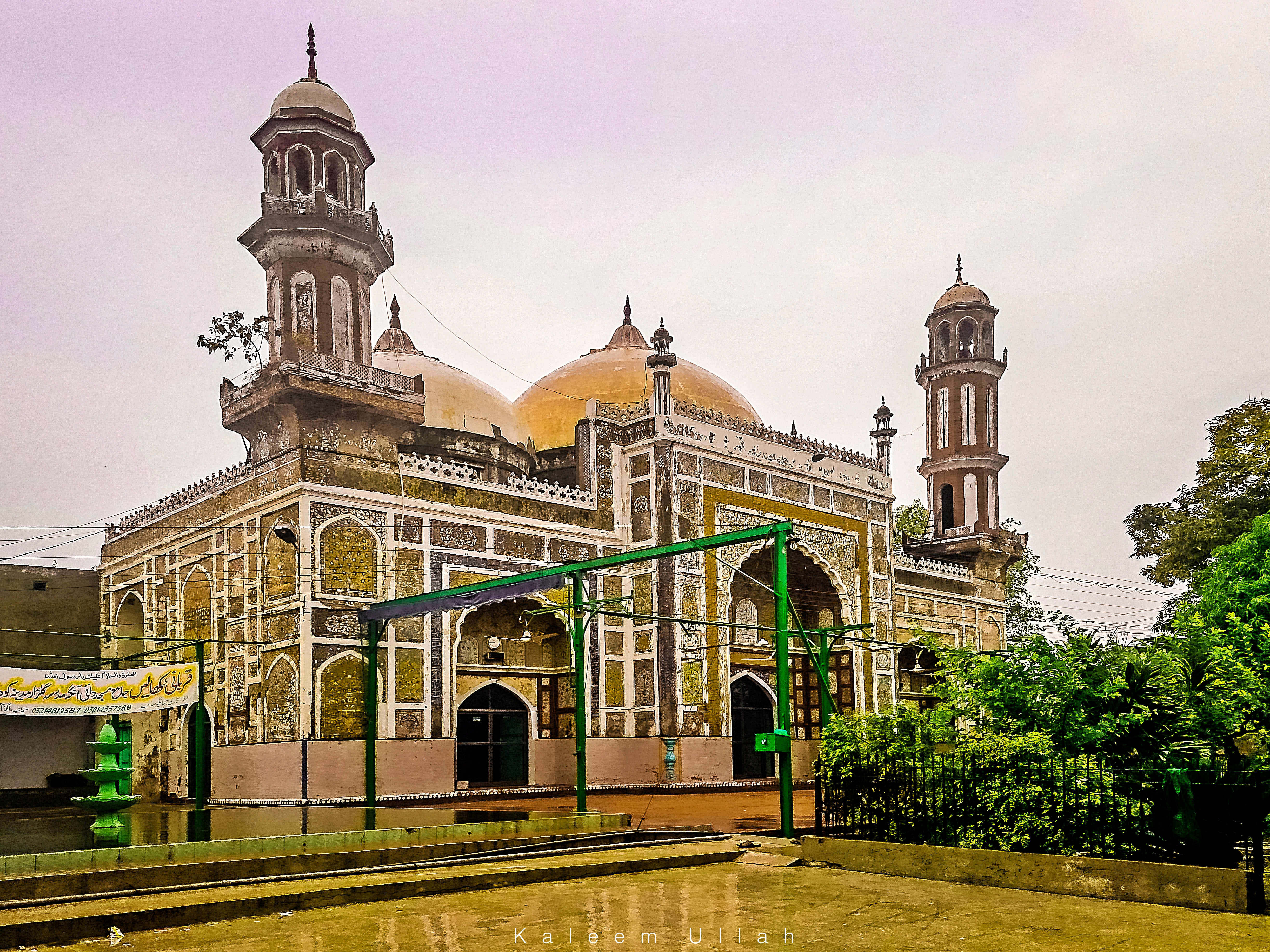 Dai Anga Mosque (built 1635) Dai Anga served as Shah Jahan's wet nurse and remained an influential force in the dynasty until her death in 1672. She is responsible for several monuments in Lahore that still survive, including her tomb near the Gulabi Bagh garden gate. Her mosque, seen here, was constructed in 1635. Although a relatively small structure, it is notable for its refined use of decoration and its stately three-bay facade. It remains in an excellent state of preservation since Dai Anga took care to donate a substantial waqf (endowment) to ensure its maintenance after her death. However, in spite of this, it was briefly converted into the residence of Henry Cope, a newspaper editor, during the rule of the British. It was restored to its original function in 1903 and has served as an active mosque ever since. This is a photo of a monument in Pakistan identified as the PB-47